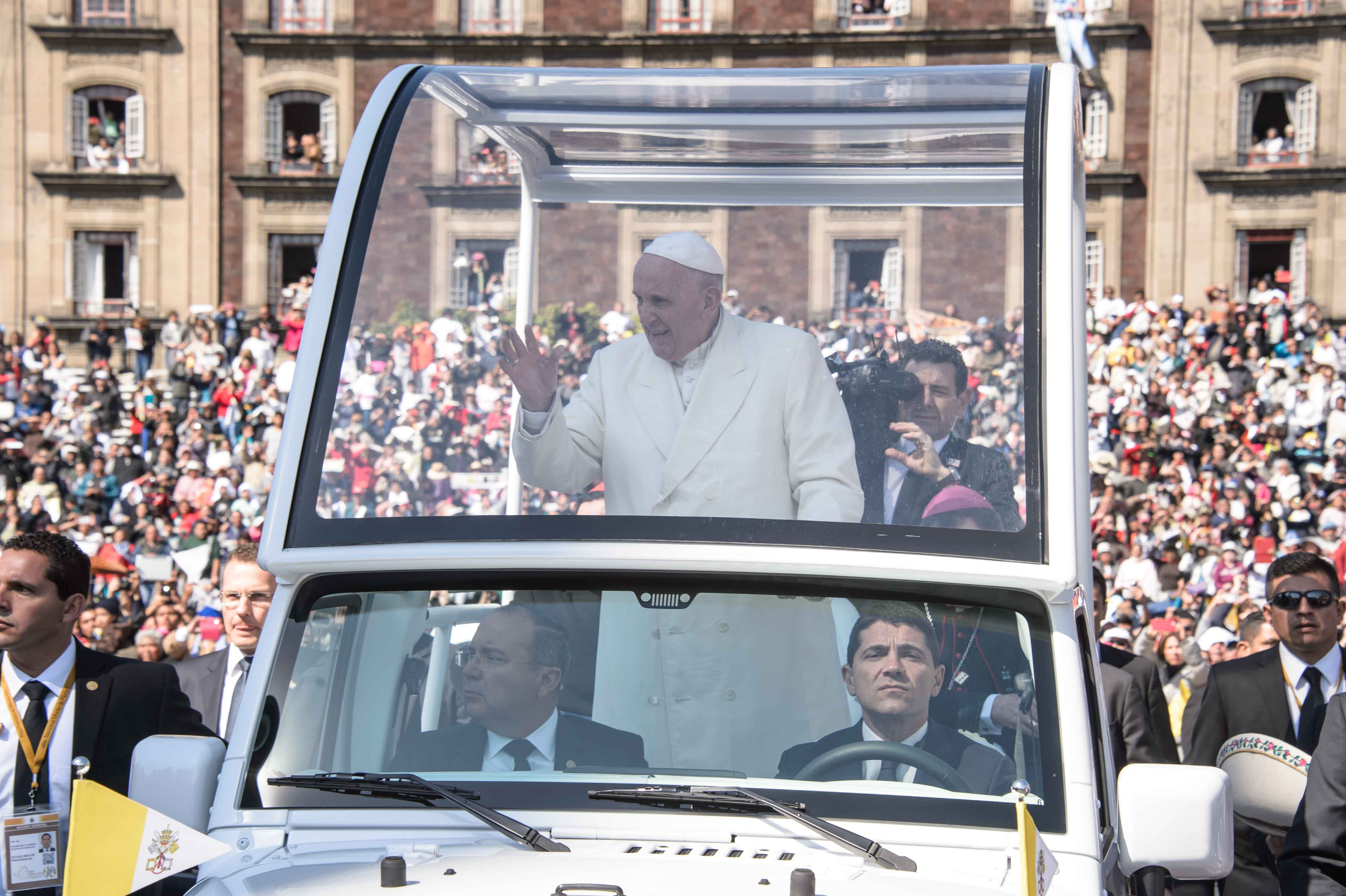 Reconocemos en el Papa Francisco a un líder sensible y visionario, que está acercando una institución milenaria, a las nuevas generaciones. 13 de Febrero del 2016